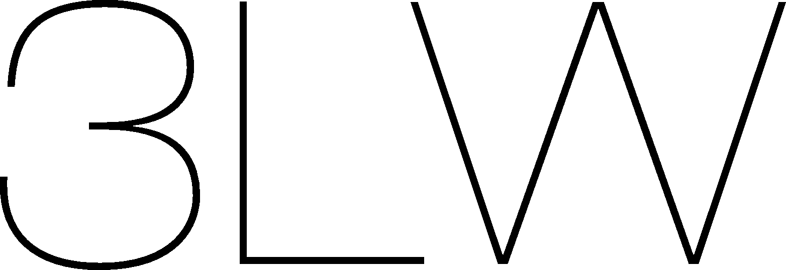 The logo of American musical trio 3LW. It consists of "3", "L", and "W", written in a variant of the Helvetica font.